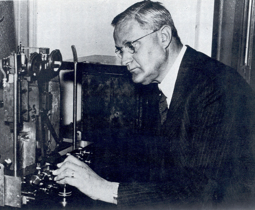 Scanned this picture from the collection of the Utrecht University archive/museum.